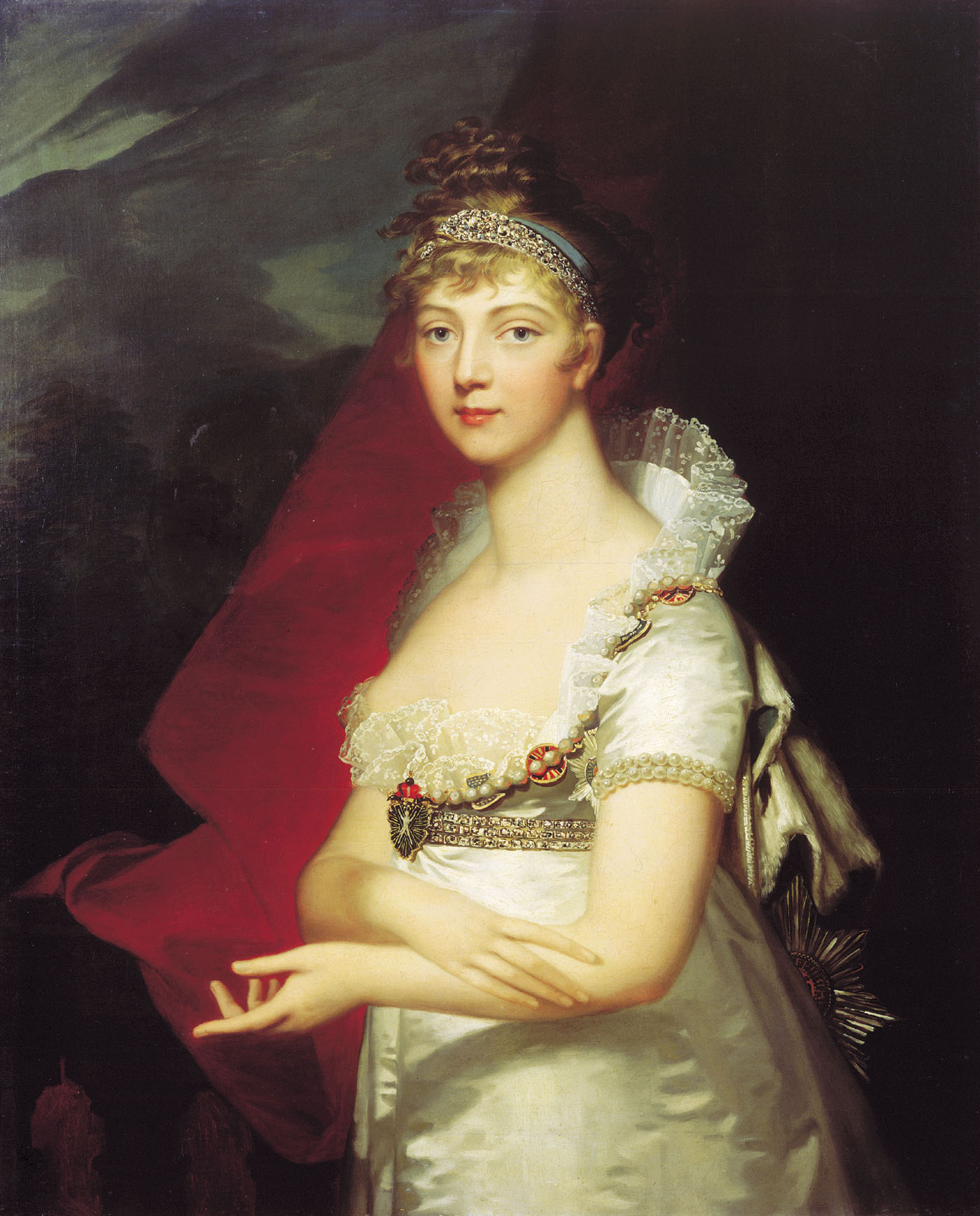 German born Princess Louise of Baden, also known as Elizaveta Alexeevna, wife of russian tsar Alexander I.